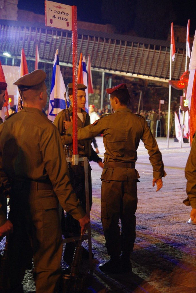 Israeli paratrooper receives his firearms near the Western Wall